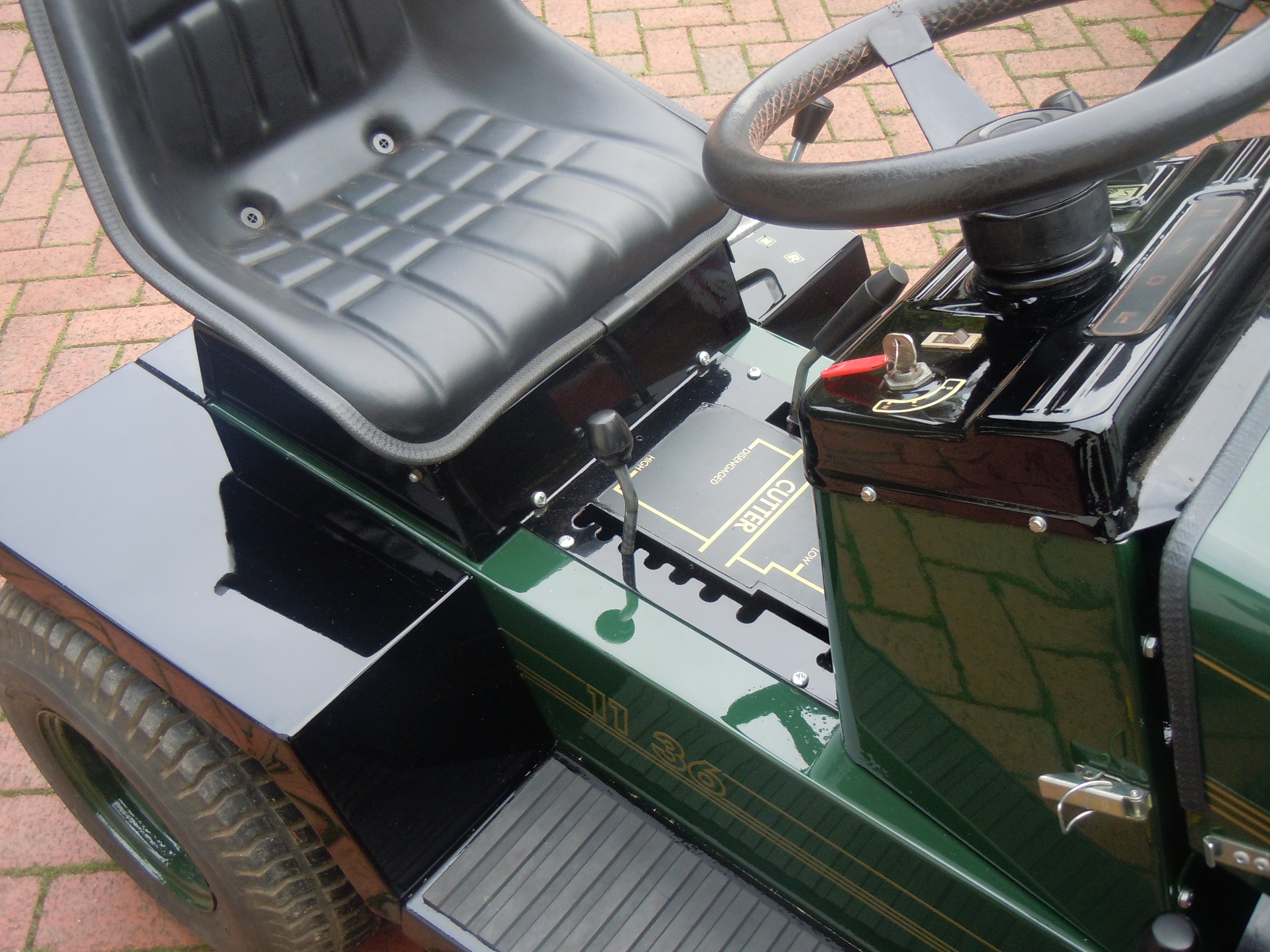 Seat and controls of Atco 11/36 Lawn Tractor, made in 1986. Just been restored.